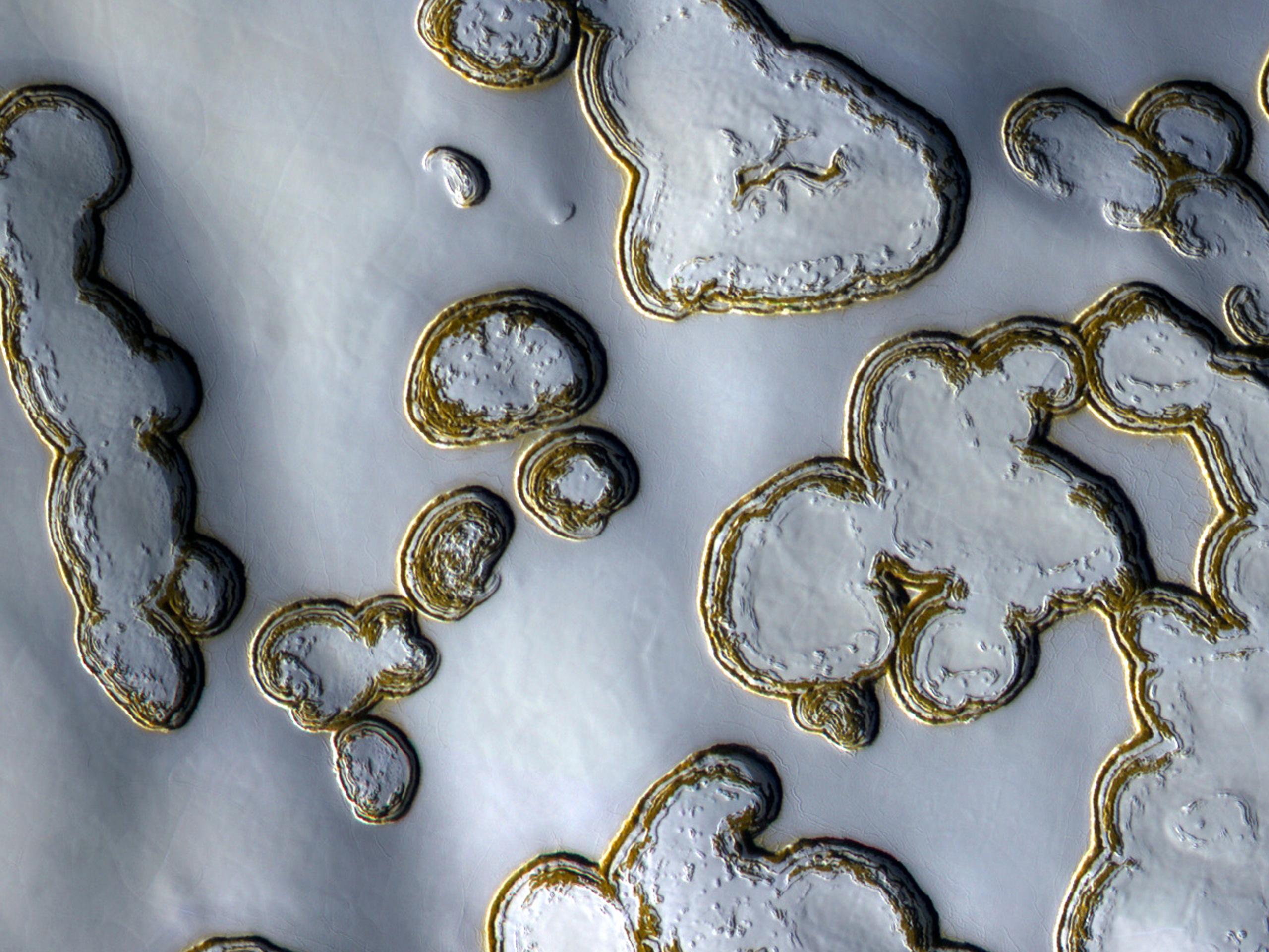 Carbon dioxide ice in the late summer of Mars's South Pole, part of the permanent polar cap.